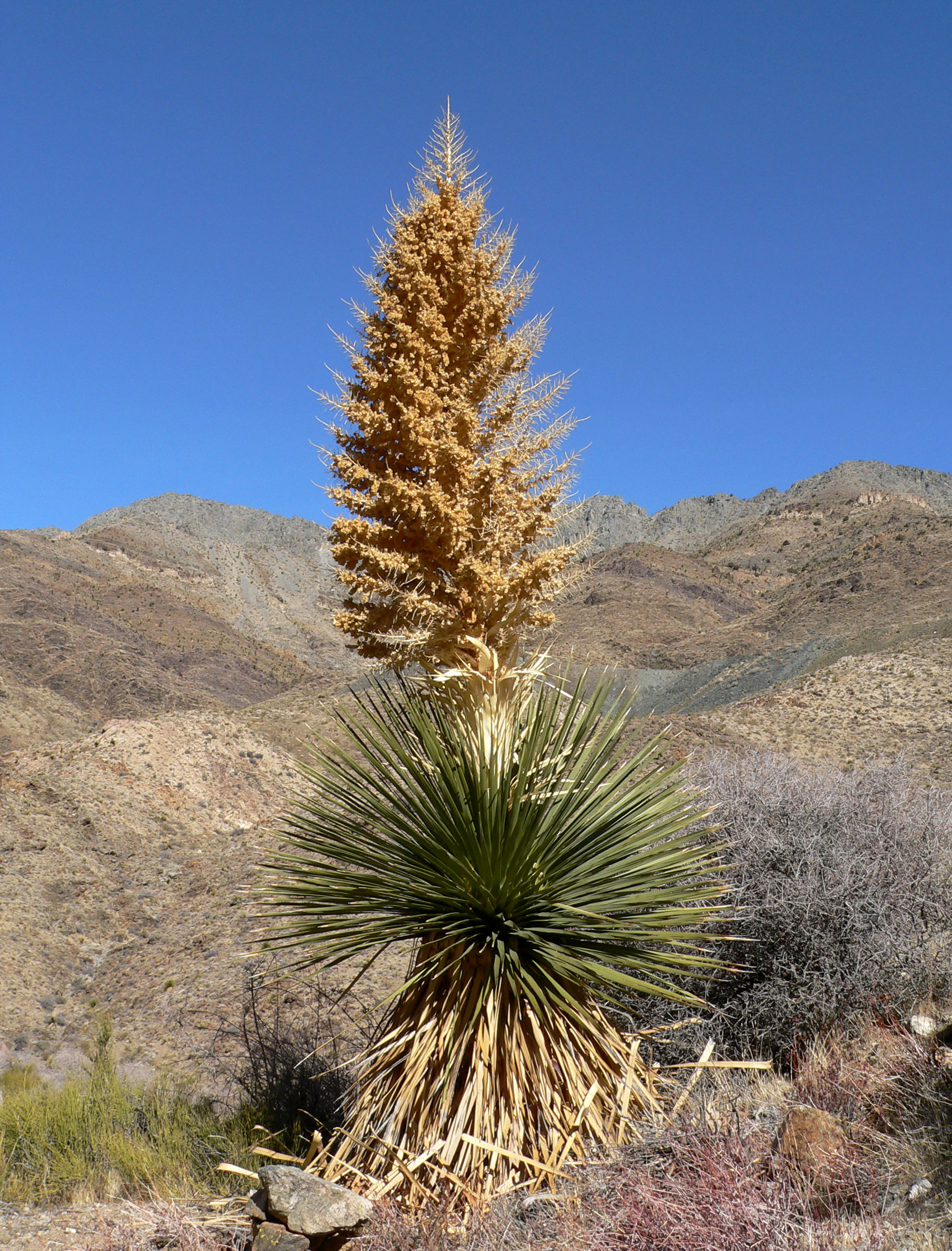 Nolina parryi — Parry's Nolina, Giant Nolina. In the eastern Mojave Desert, off the Excelsior Mine Road near Beck Spring in the Kingston Range, San Bernardino County, southeastern California.